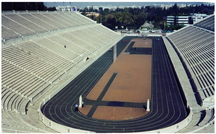 Panathinaikon Stadium in Athens.